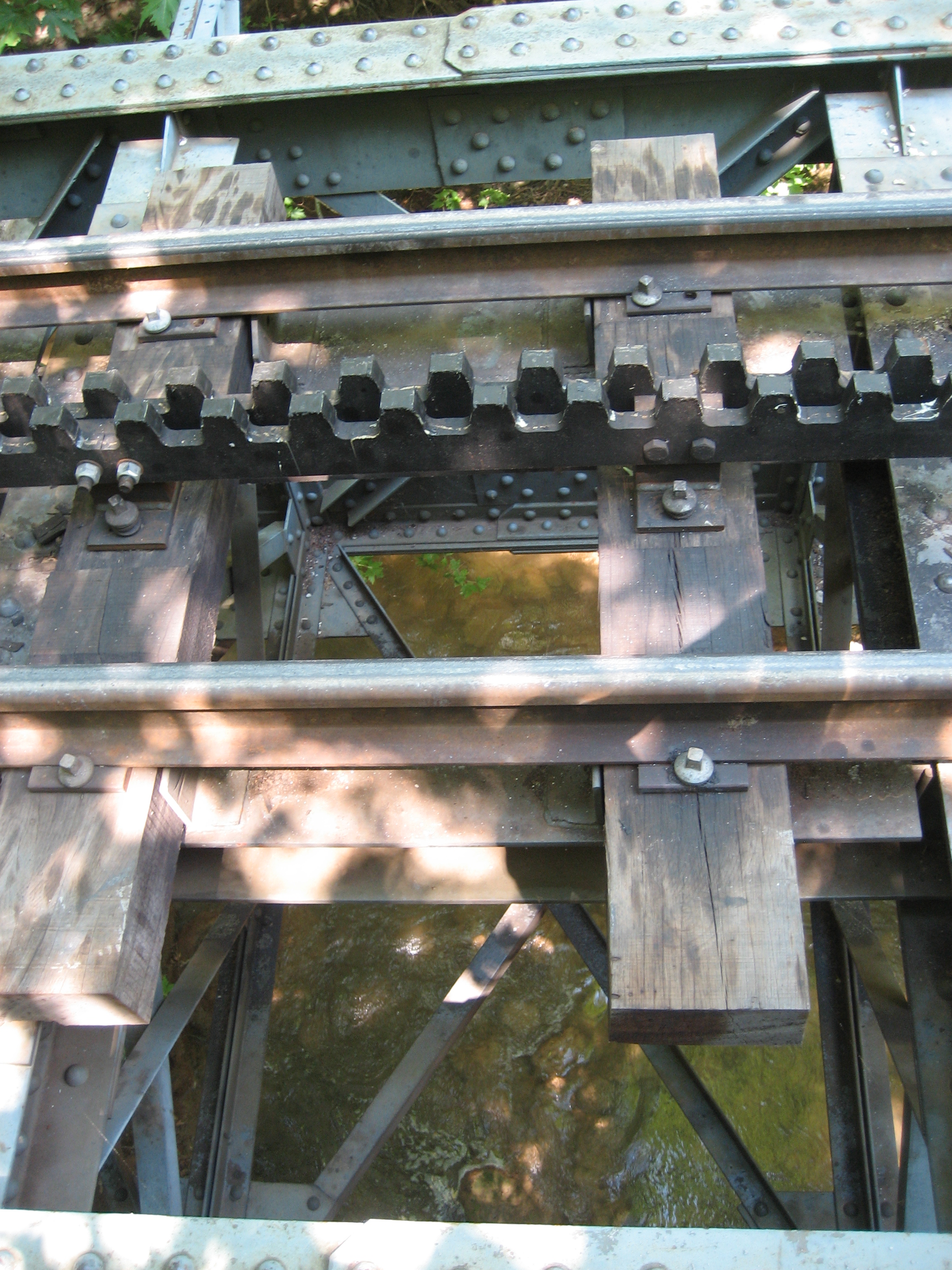 Diakofto-Kalavrita railway, Greece